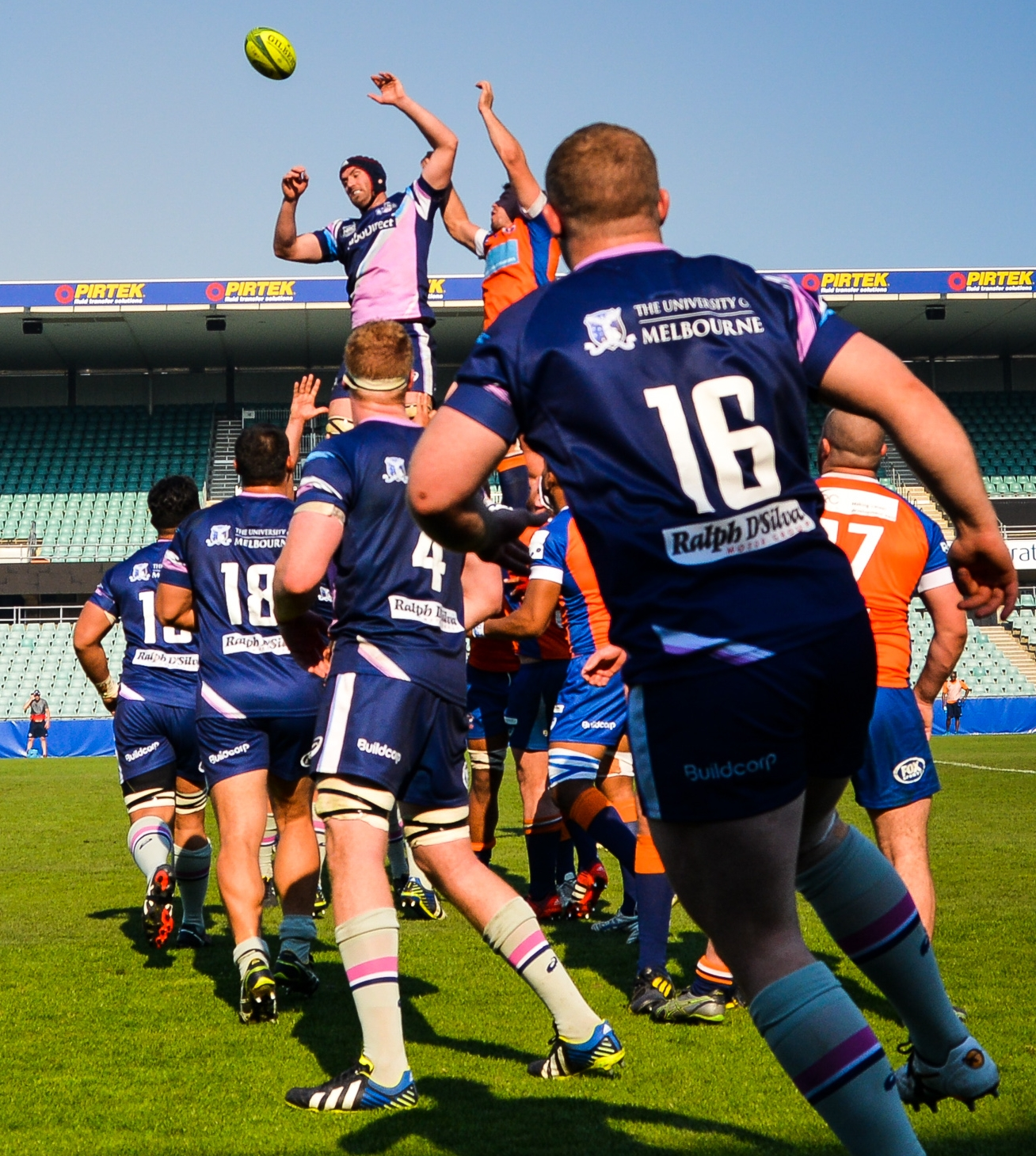 Melbourne Rising win a lineout against the Greater Sydney Rams at Pirtek Park, Sydney in 2014